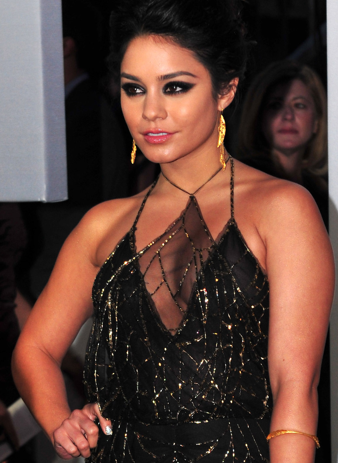 Vanessa Hudgens at the 38th People's Choice Awards, Red Carpet, 2012.